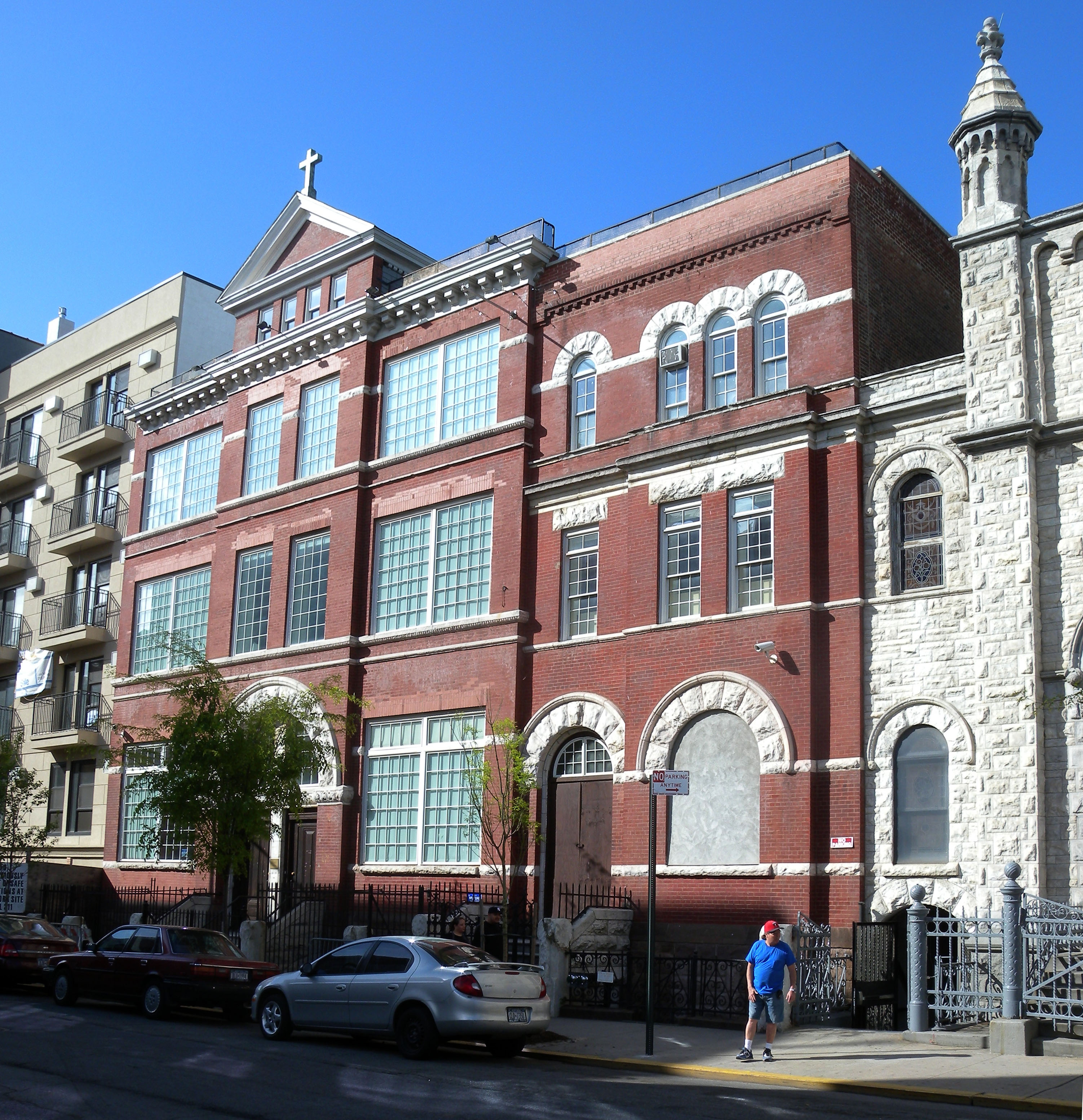 Looking north across 115th St at National Museum of Catholic Art and History on a sunny afternoon.